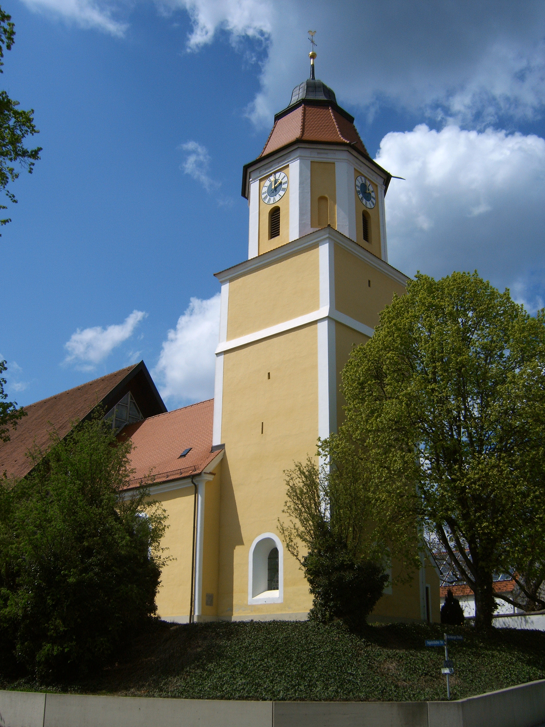 Stammham_St._Stephanus_Außen.jpg